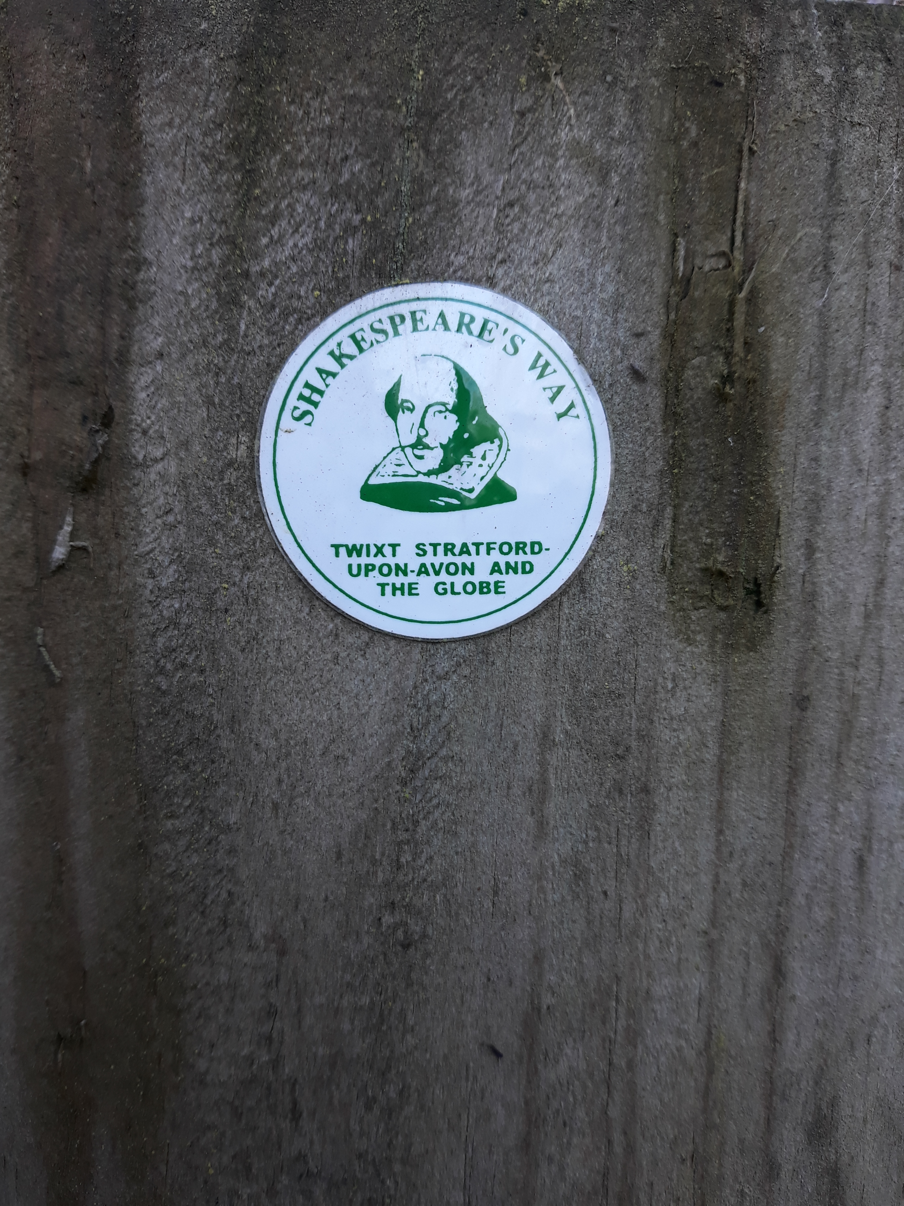 Shakespeare's Way waymarker, just south of Yarnton. Oxforshire, England.